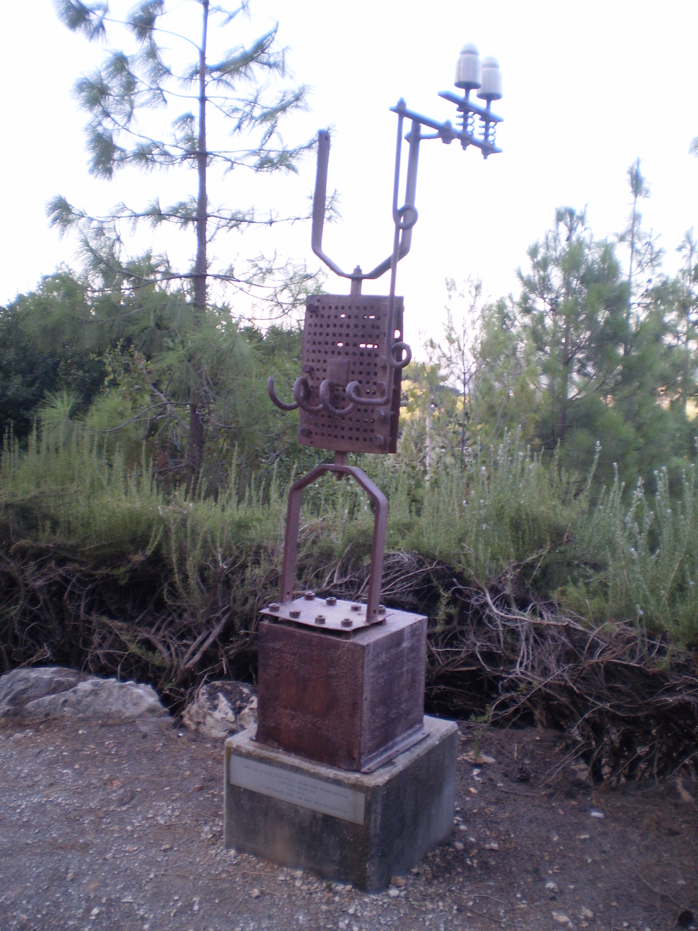 Moses, by Ettore Colla, 1957, Amirim sculpture garden, Israel